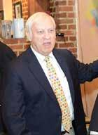 Former US Attorney W. Hickman Ewing